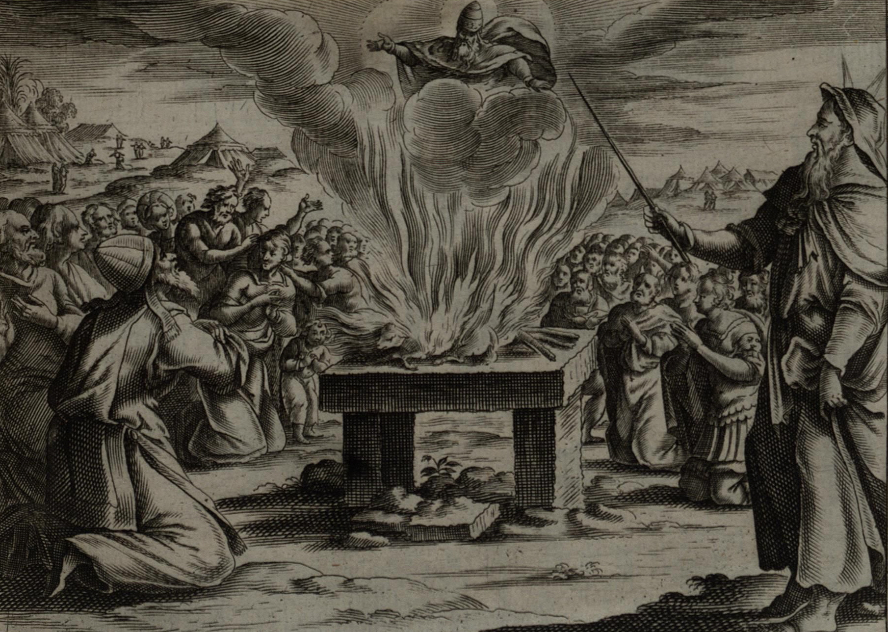 Aaron's first offering, as in Leviticus 9, engraving by Gerard Jollain published 1670 in "La Saincte Bible, Contenant le Vieil and la Nouveau Testament, Enrichie de plusieurs belles figures/Sacra Biblia, nouo et vetere testamento constantia eximiis que sculpturis et imaginibus illustrata, De Limprimerie de Gerard Jollain"